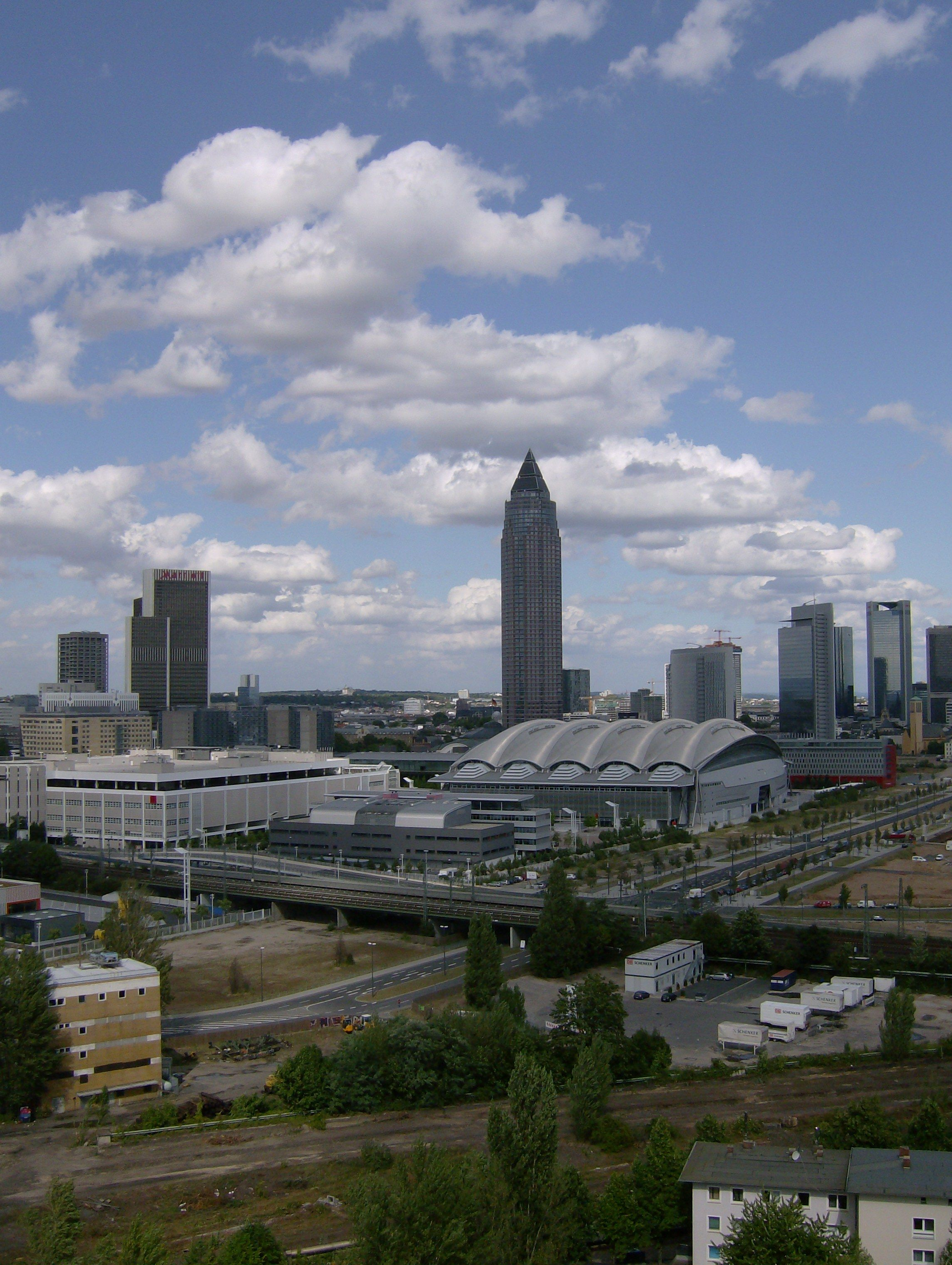 Frankfurt fairground from the roof of the DB-headquarters